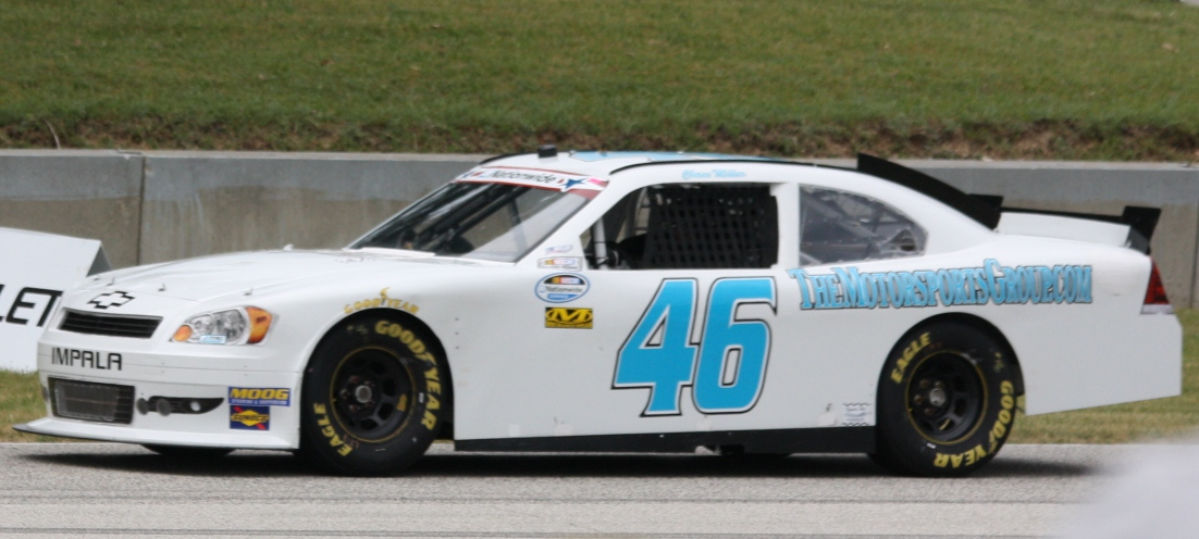 Chase Miller NASCAR Nationwide Series car at Road America at the 2012 Sargento 200.